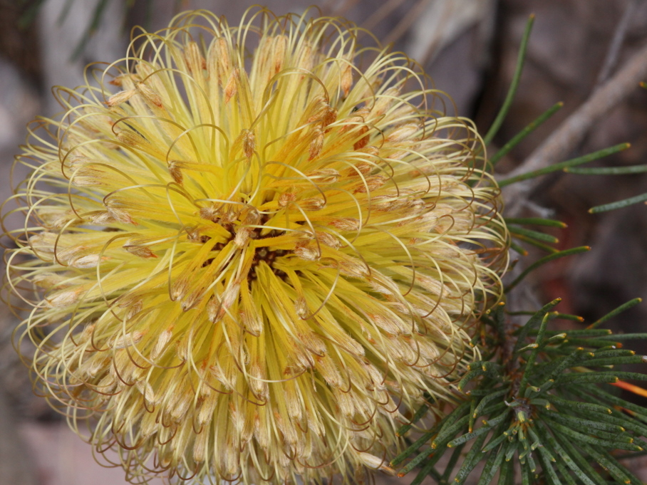 Banksia sphaerocarpa at Mt Trio, Stirling Range National Park, Western Australia